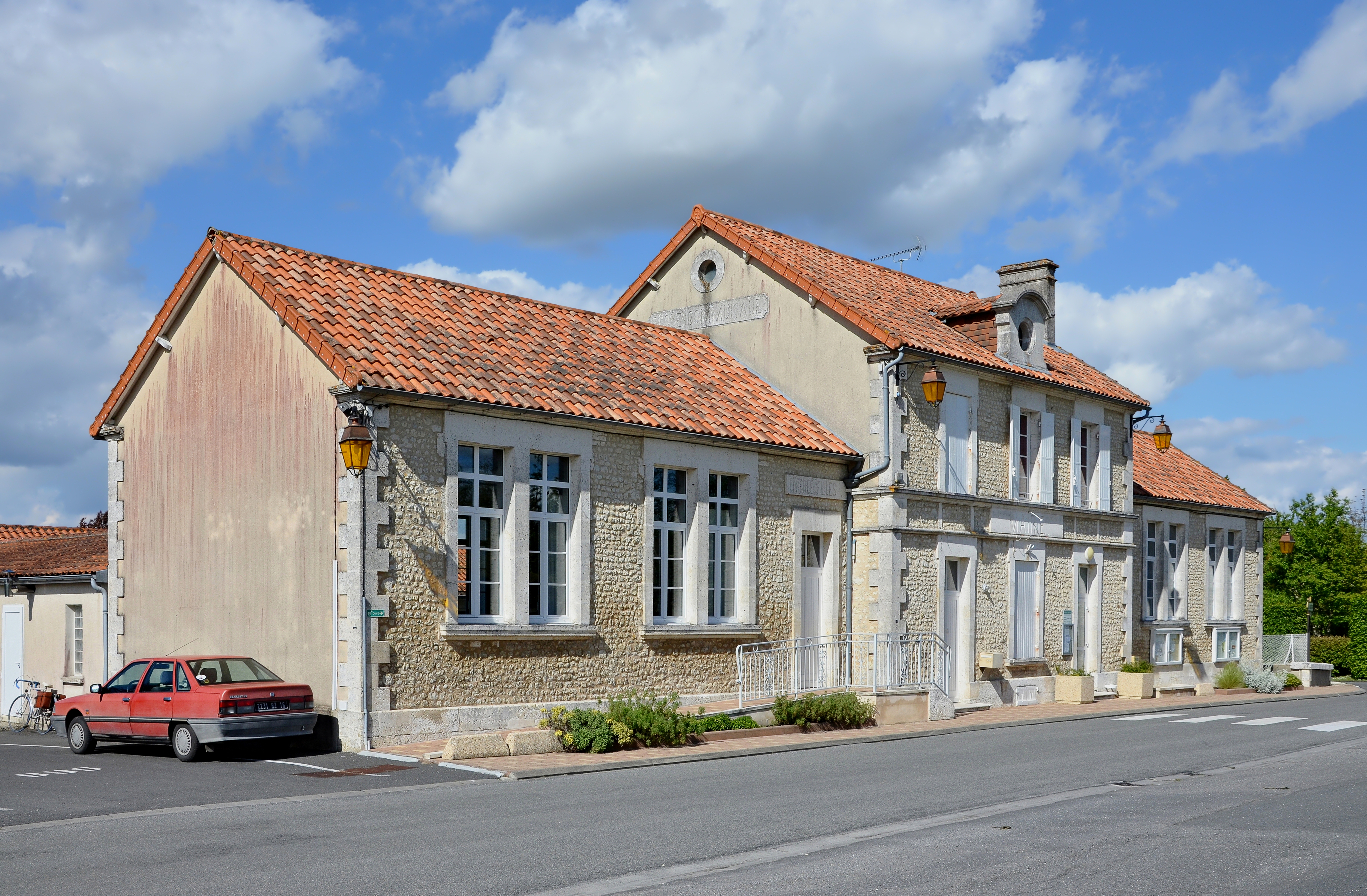 WSW view of the town hall-school of Challignac, Charente, France.